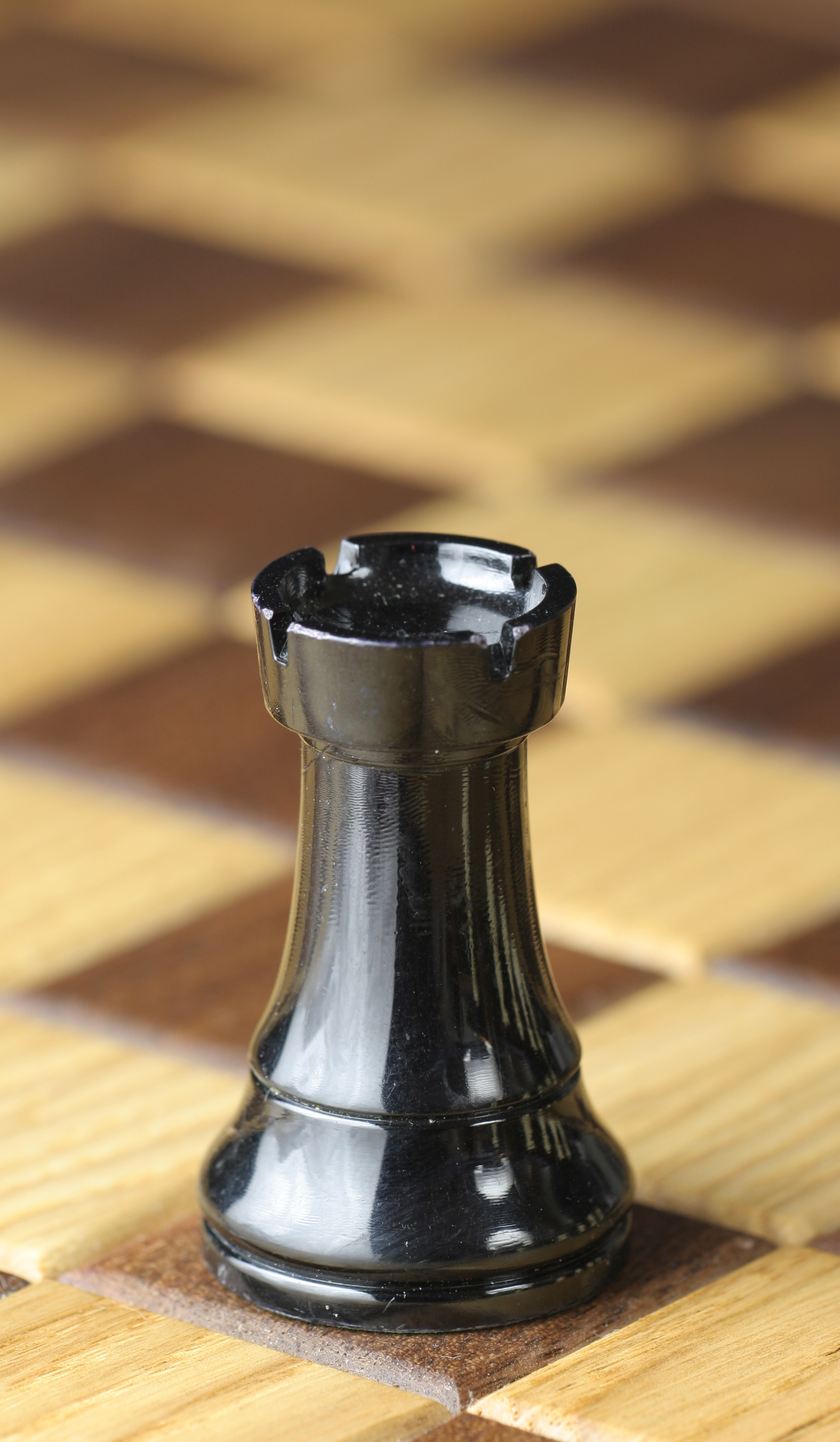 Chess piece - Black rook, Staunton design